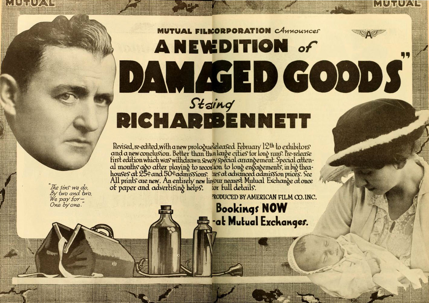 Advertisement in Moving Picture World for the American film Damaged Goods (1914) starring Richard Bennett, which was reissued in 1917.